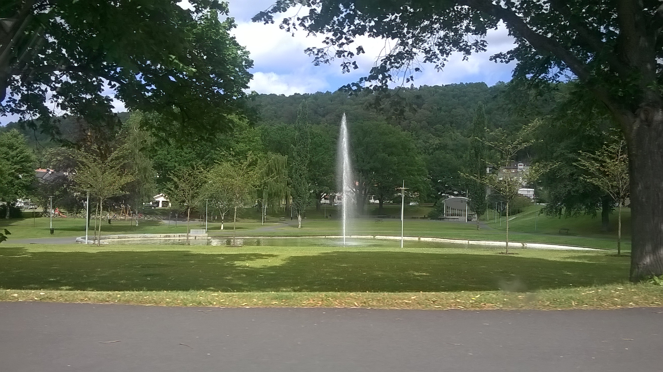 Mjölkafållan in Huskvarna, Sweden 16 July 2014